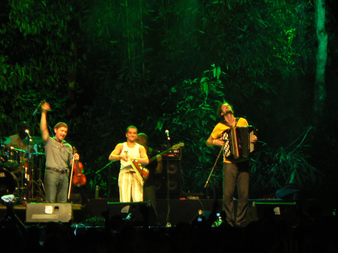 French Gypsy band performing during Rainforest World Music Festival (RWMF) which was held in Kuching, Sarawak, Malaysia from 7 to 9 July 2006.